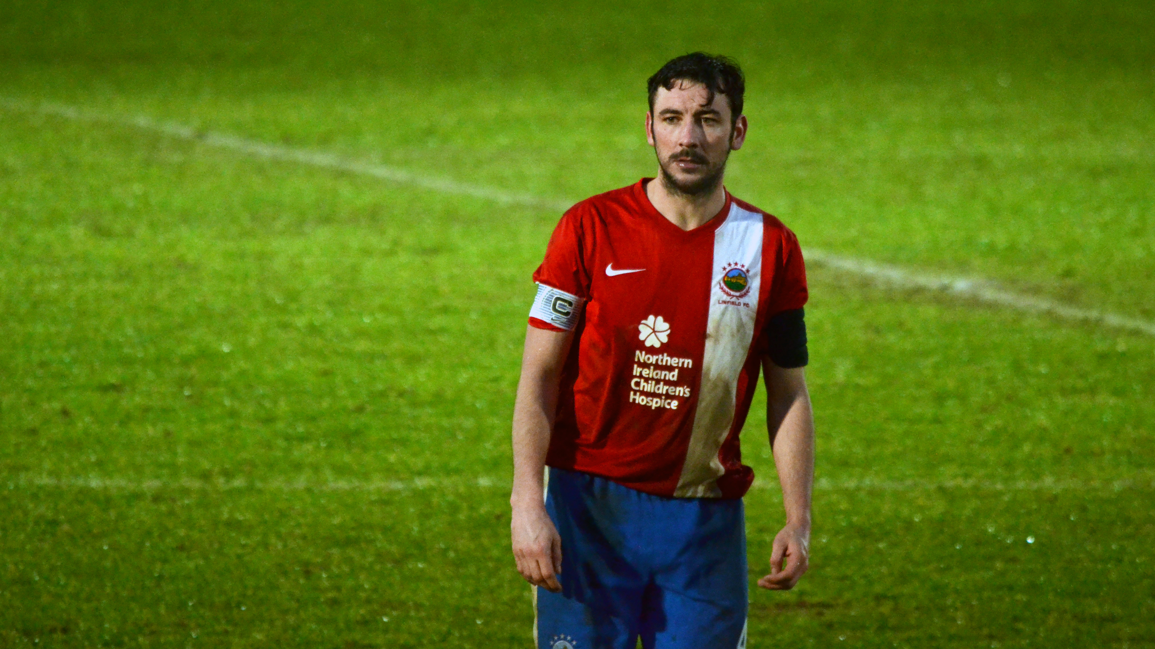 Michael Gault. Captain of Linfield F.C. Pictured in January 2014.